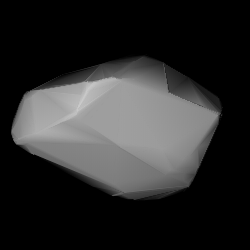 3D convex shape model of 3674 Erbisbühl, computed using light curve inversion techniques. J. Hanuš, J. Ďurech, M. Brož, B. D. Warner (June 2011). "A study of asteroid pole-latitude distribution based on an extended set of shape models derived by the lightcurve inversion method". Astronomy and Astrophysics 530: A134. ISSN 0004-6361. arXiv